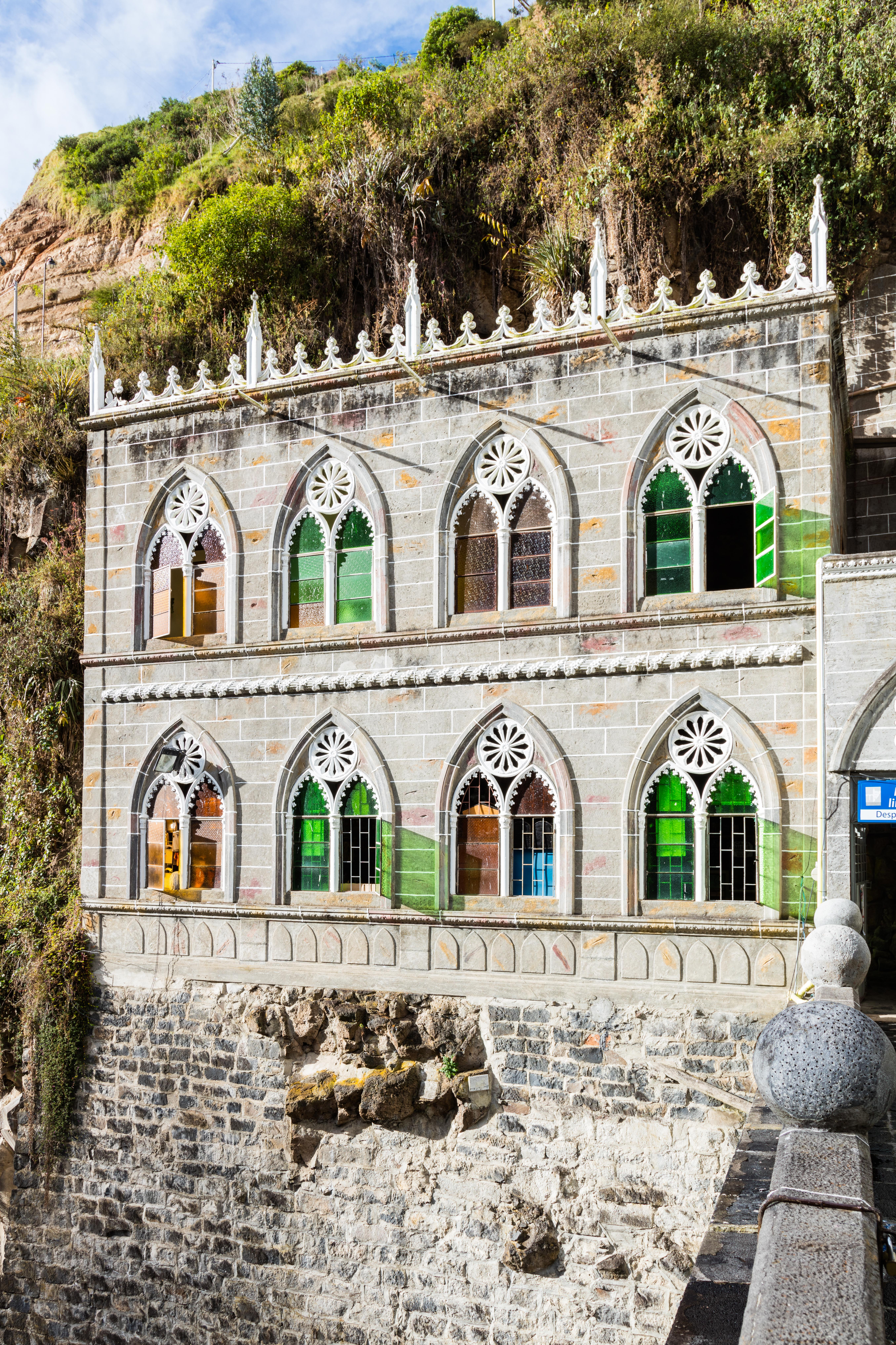 Sanctuary of Las Lajas, Ipiales, Colombia